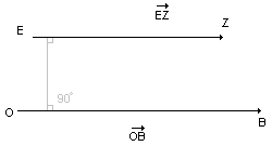 Vectors